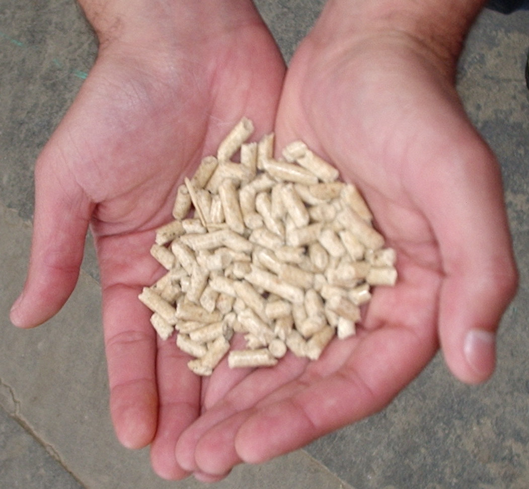 Wood pellets in someone's hands